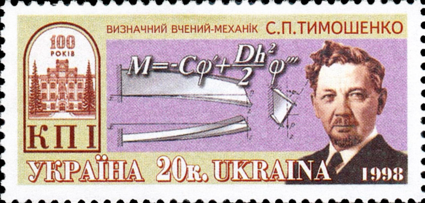 Stamp of Ukraina, S. P. Timoshenko, 1998, 20 k.